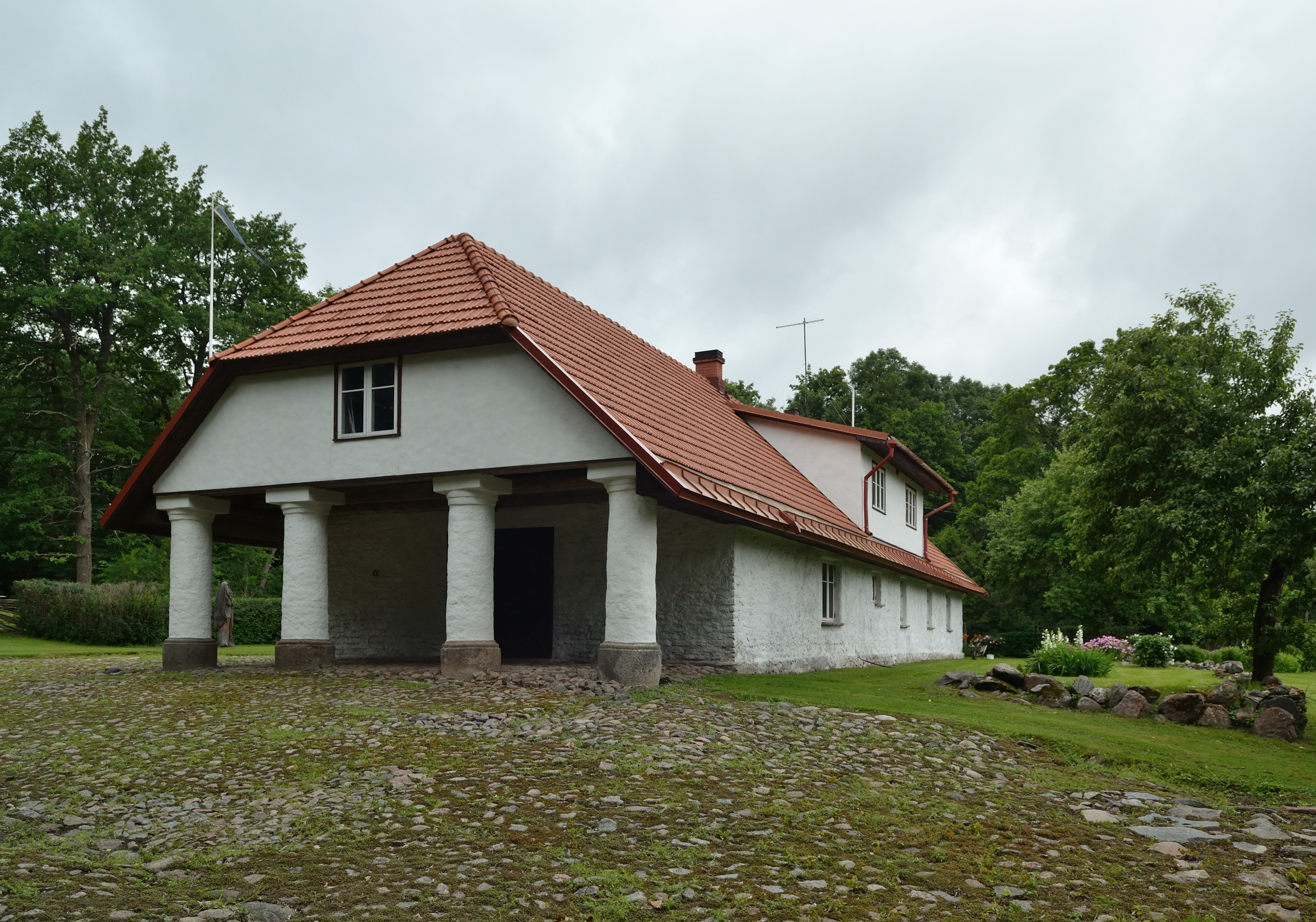 Anija manor workers house 2